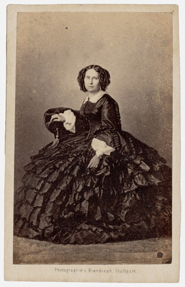 Queen Sophie of the Netherlands, née Princess of Württemberg